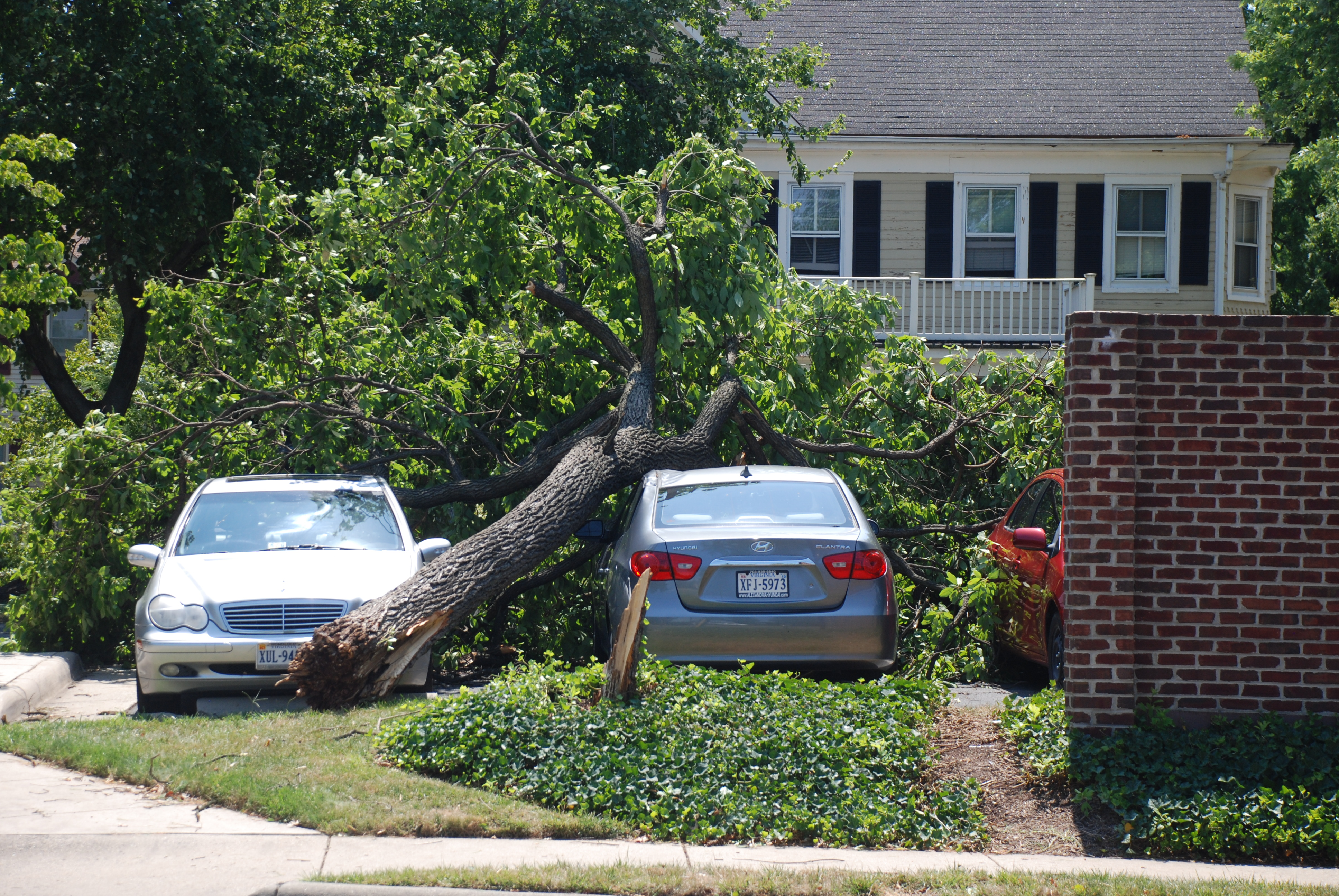 June 2012 North American derecho: snapped tree in Oakton, Virginia